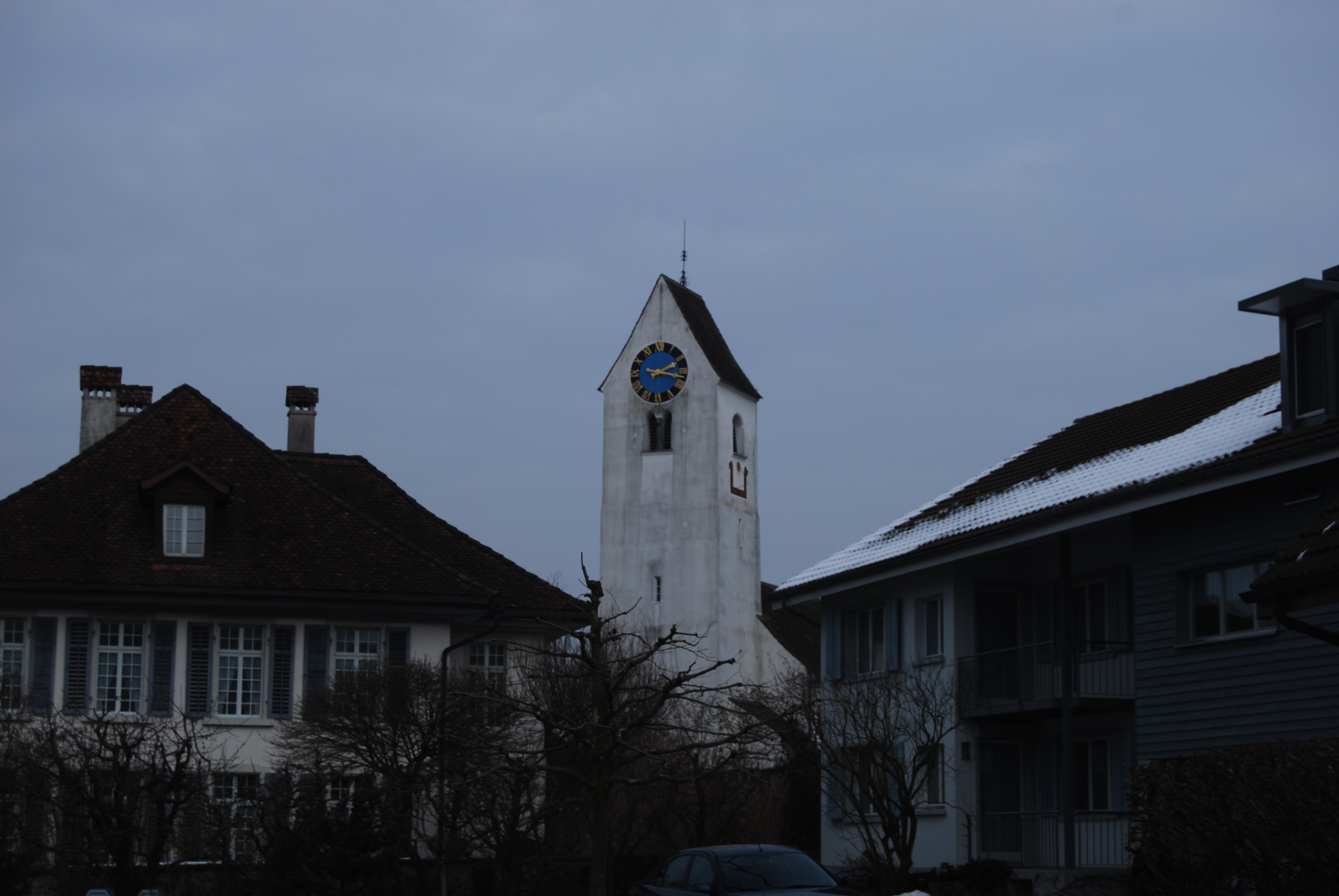 Church of Ammerswil, canton of Aargau, SwitzerlandEsperanto: Preĝejo de Ammerswil, Kantono Argovio, Svislando